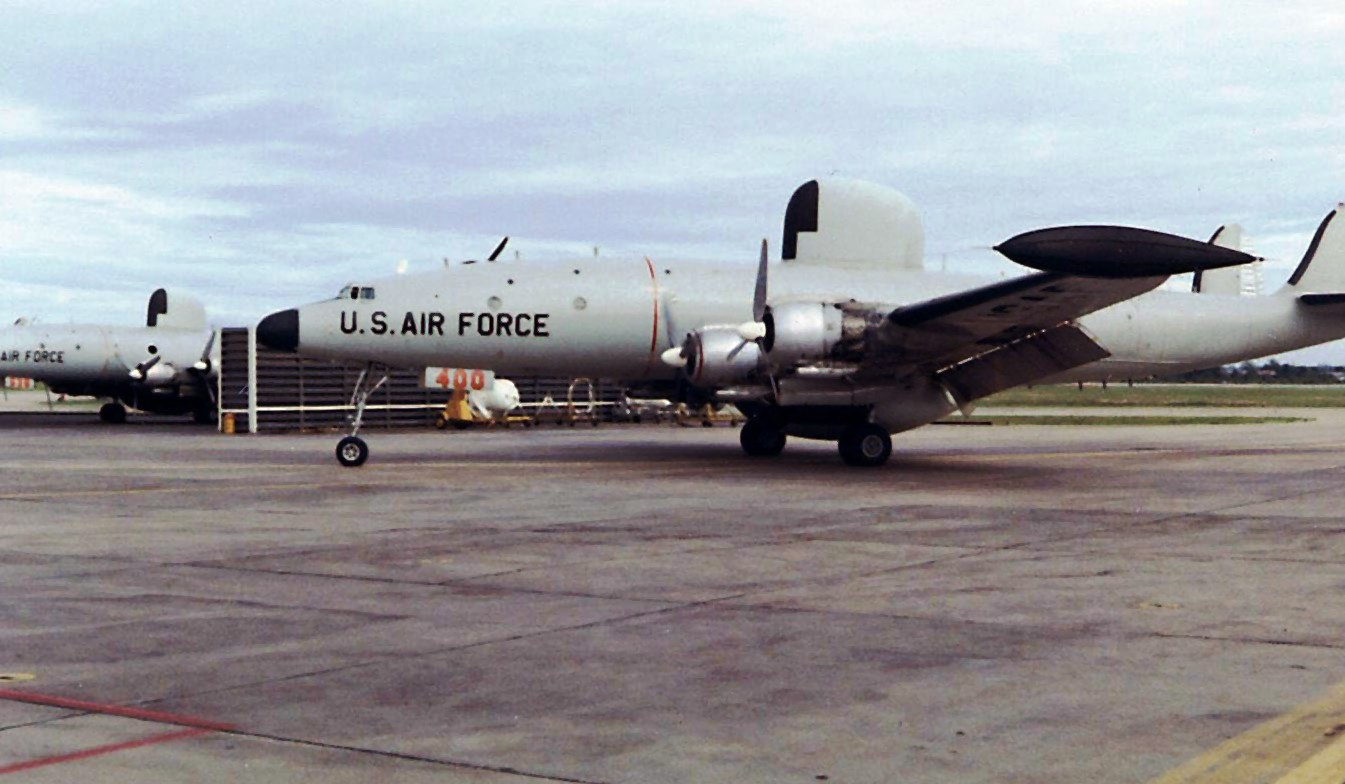 A U.S. Air Force Lockheed EC-121D Warning Star (s/n 53-3400) of the 552nd Airborne Early Warning & Control Wing at Korat Royal Thai Air Force Base, Thailand, in 1968. This aircraft was retired to the AMARC on 1 December 1970.